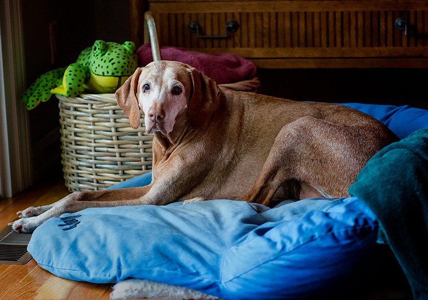 Complications from old age caught up with Magz, our eleven year old Vizsla. For her last six years, she was subject to periodic seizures that were controlled by medication. While her dosage was at a therapeutic low, it was not risk-free and known to have cumulative averse effects on liver functions. Over the last year, her health has been in decline. In the end, incurable diabetes, blindness and arthritis severely limited her mobility and life quality.